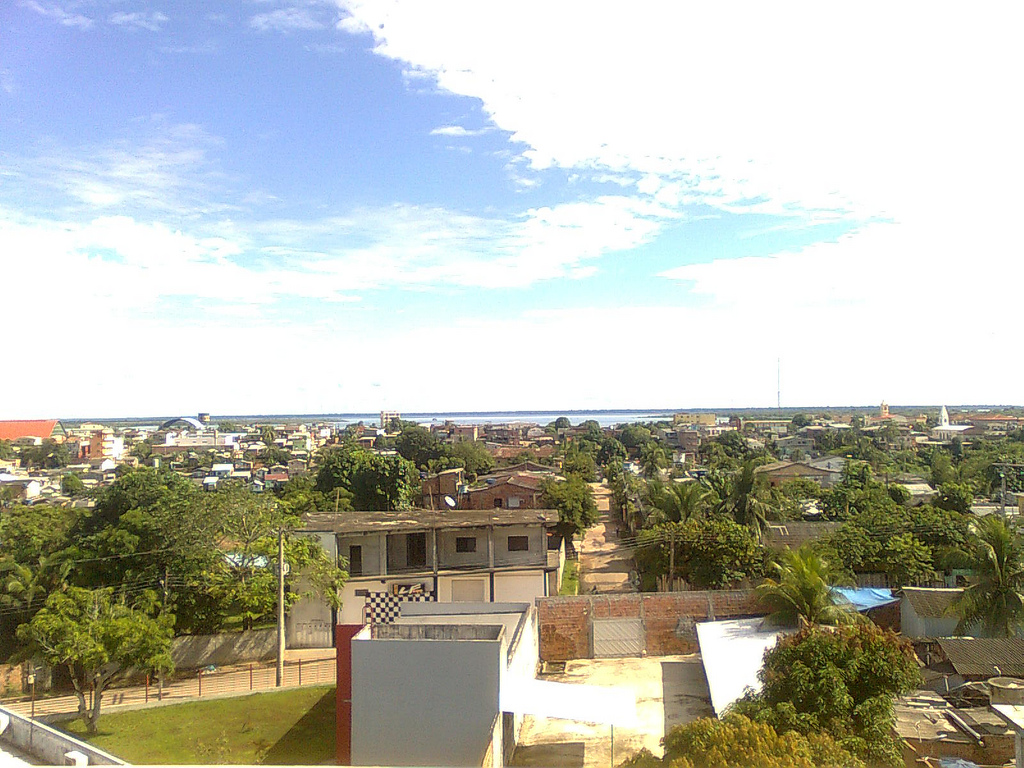 Partial view of Coari, Amazonas, Brazil.